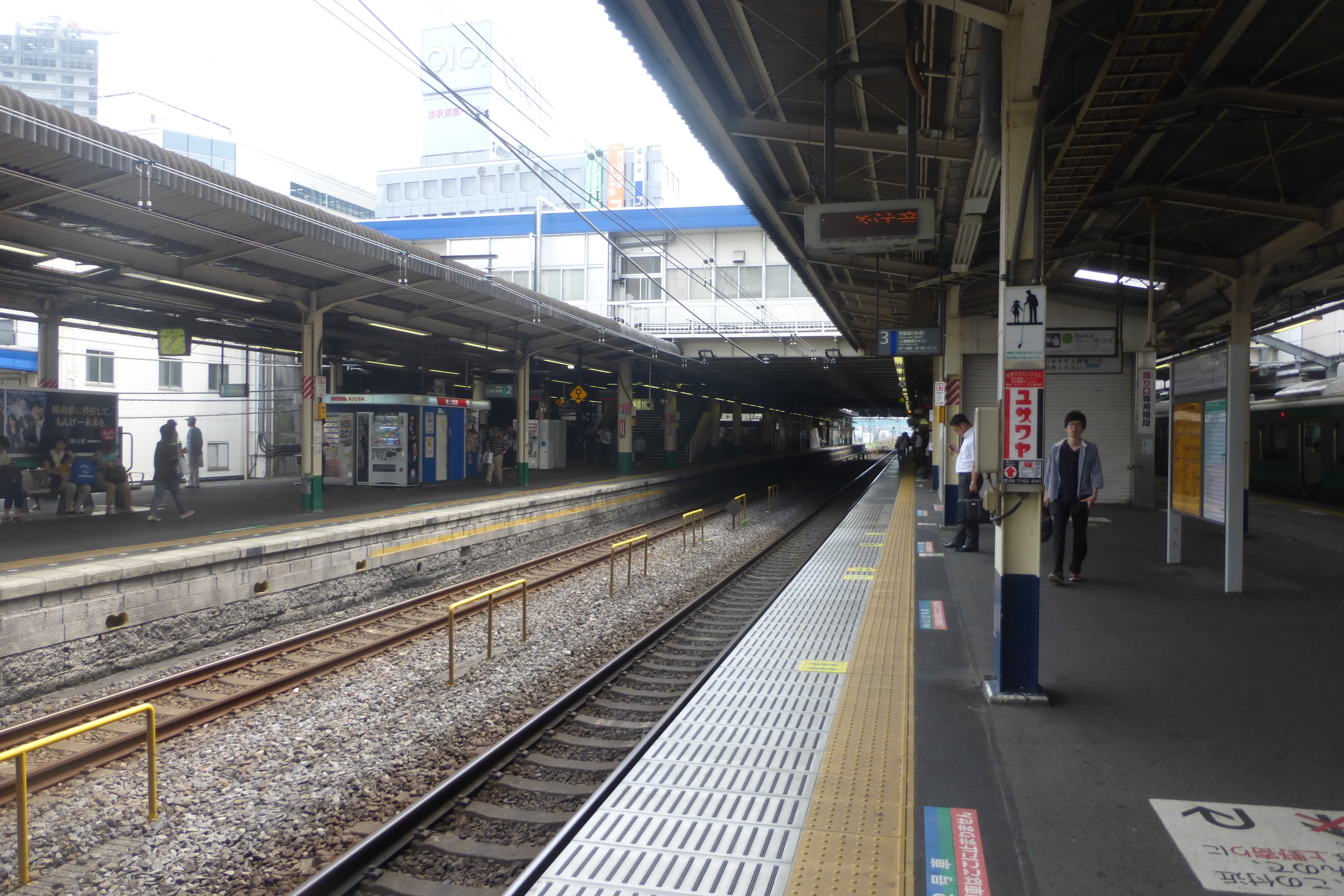 The JR Joban Line (Rapid) platform 3 at Kashiwa Station